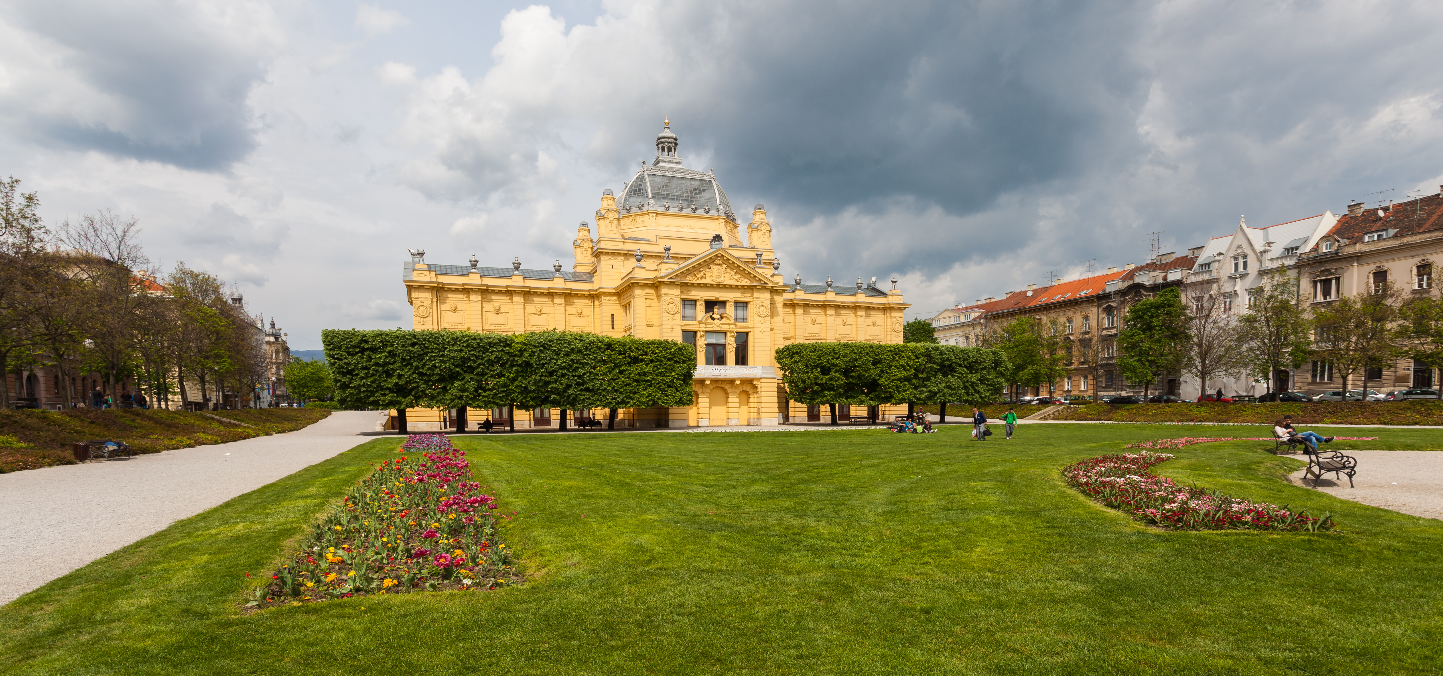 Art Pavillon, Zagreb, Croatia